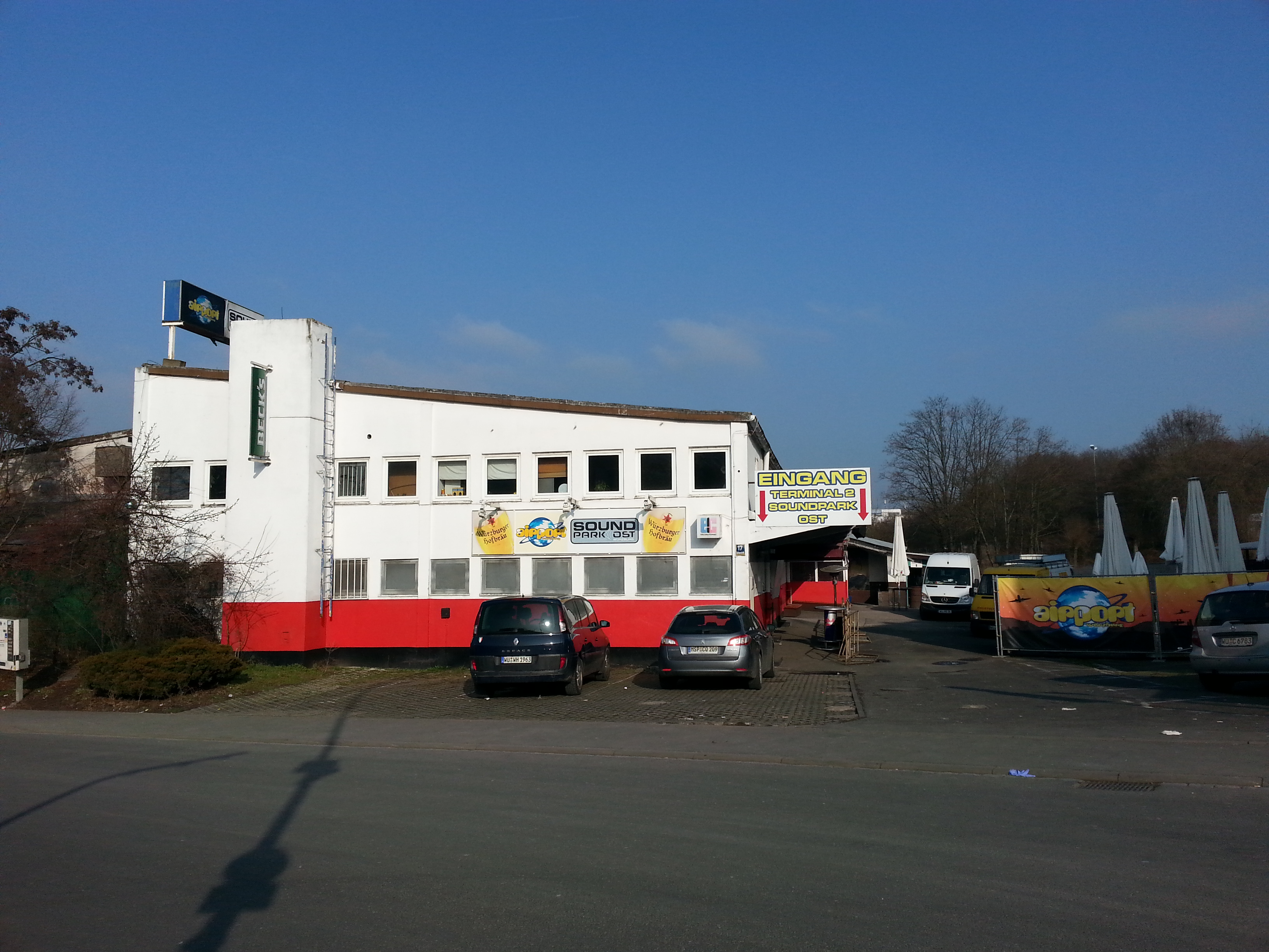 Disco Airport in Würzburg, Germany, view from the south. Outdoor area and entrance to Soundpark and Terminal 2.